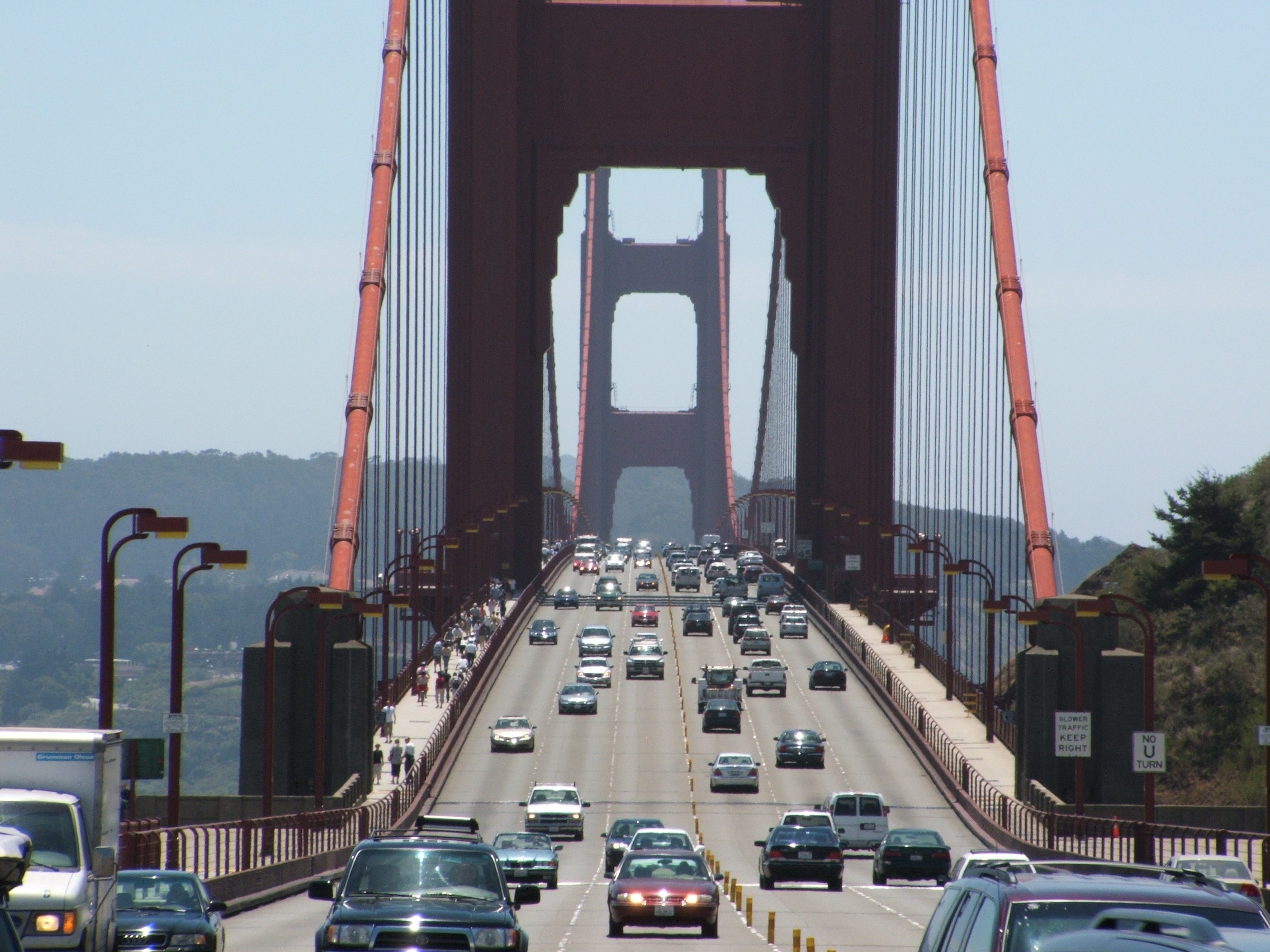 Traffic on the Golden Gate Bridge.